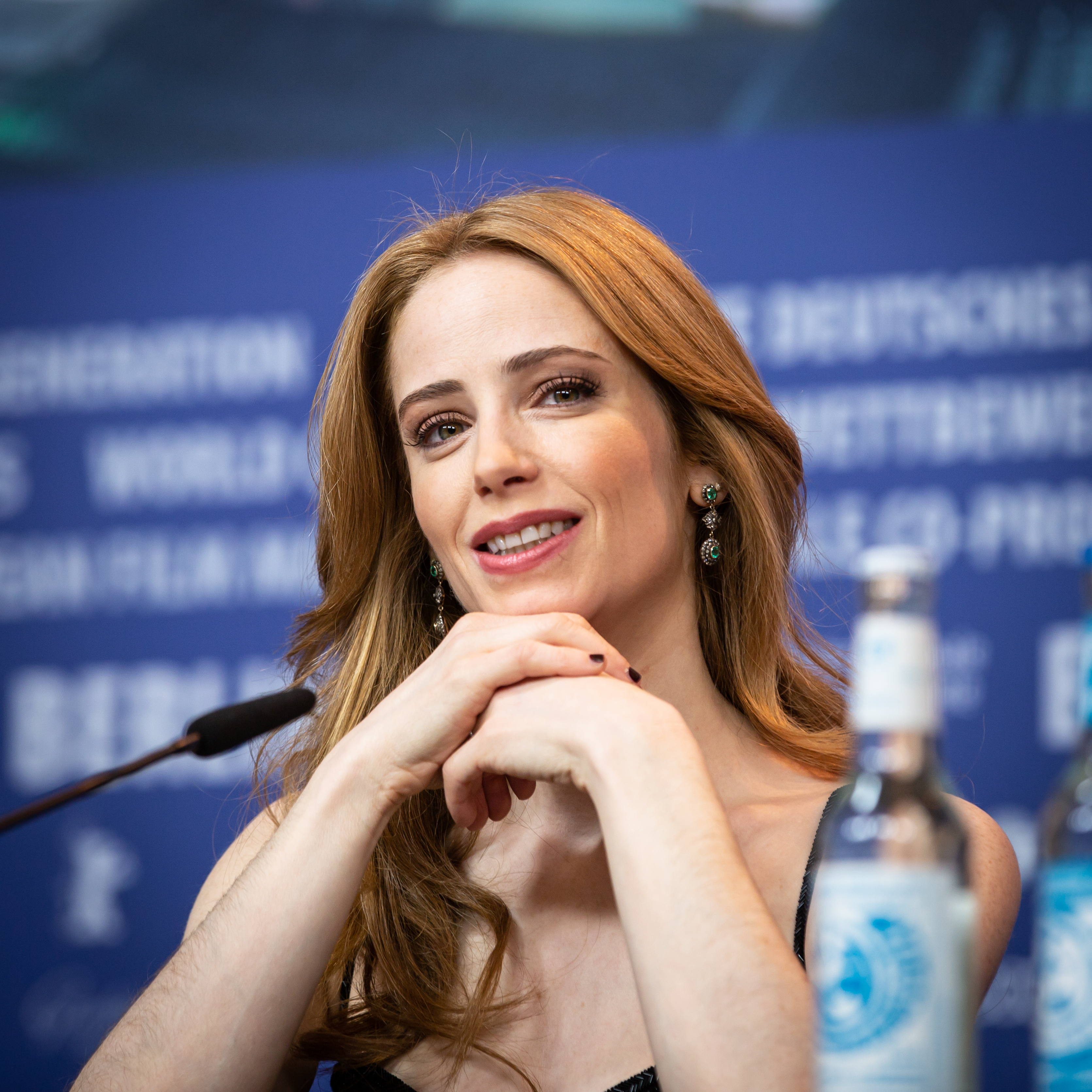 Film producer and actress Jaime Ray Newman at the Berlinale 2019